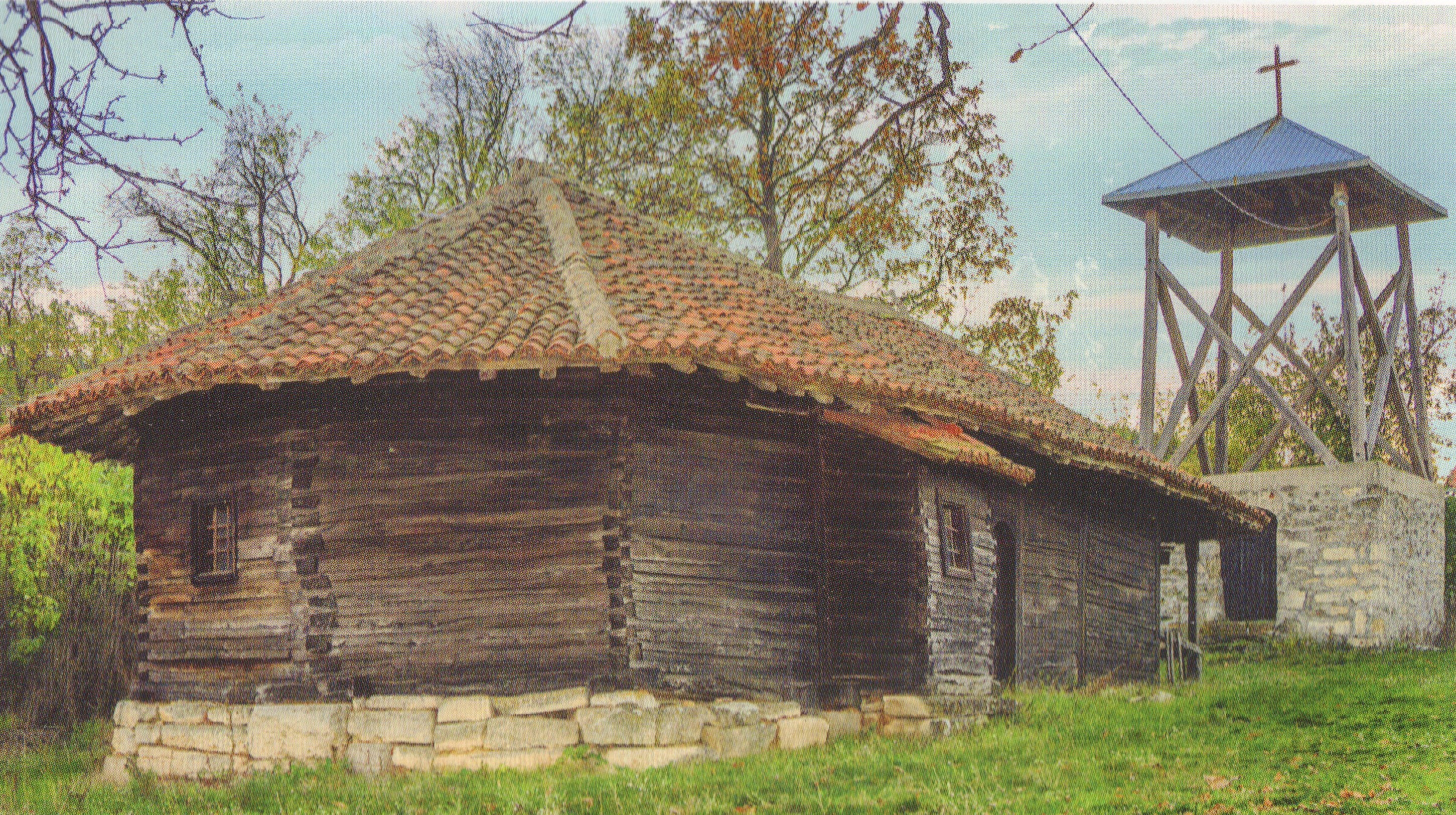 Church Chalet in Popovica, Negotin- general look